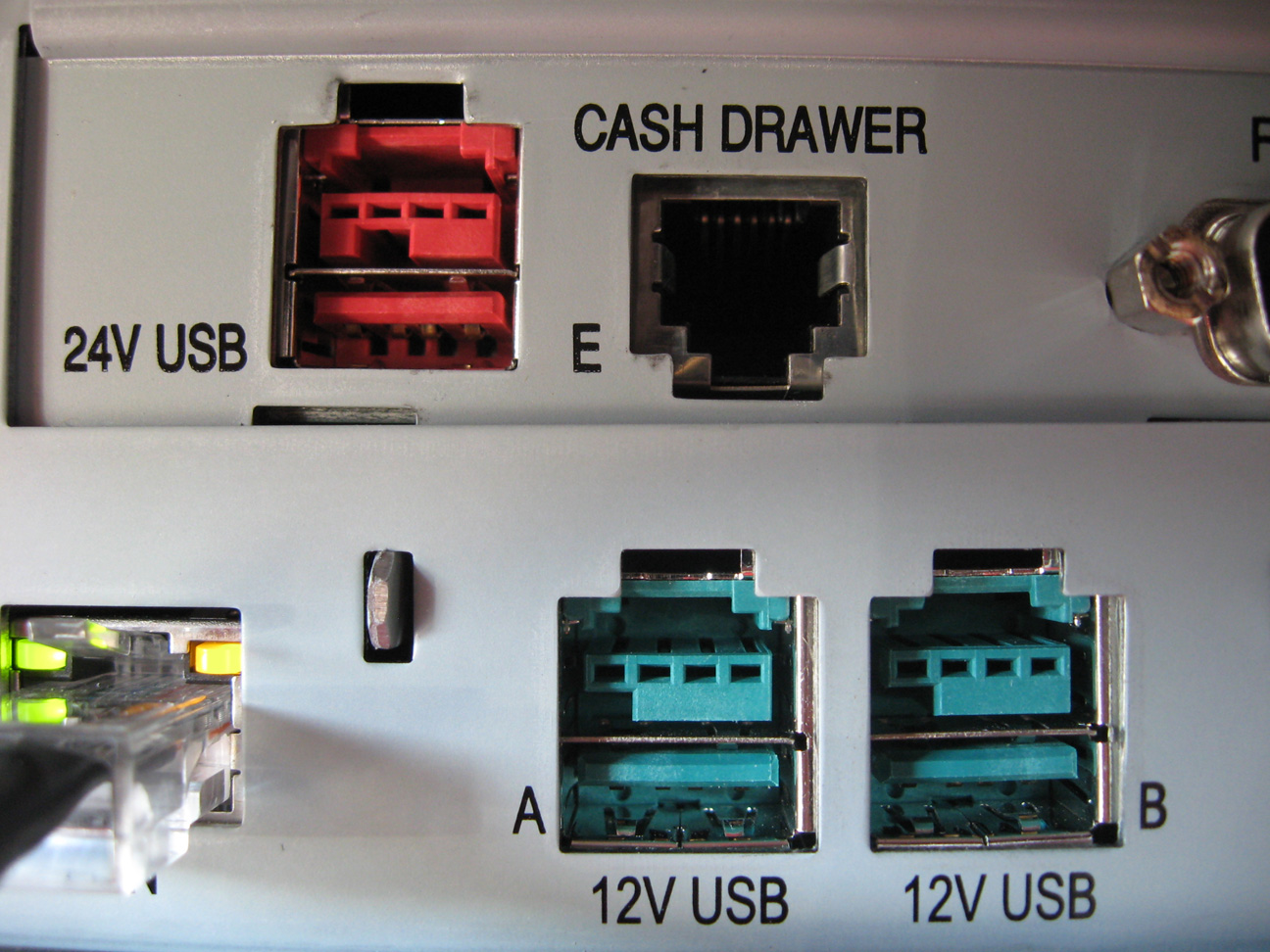 This is an image showing two types of powered USB ports (12v and 24v) as found on an NCR cash register.